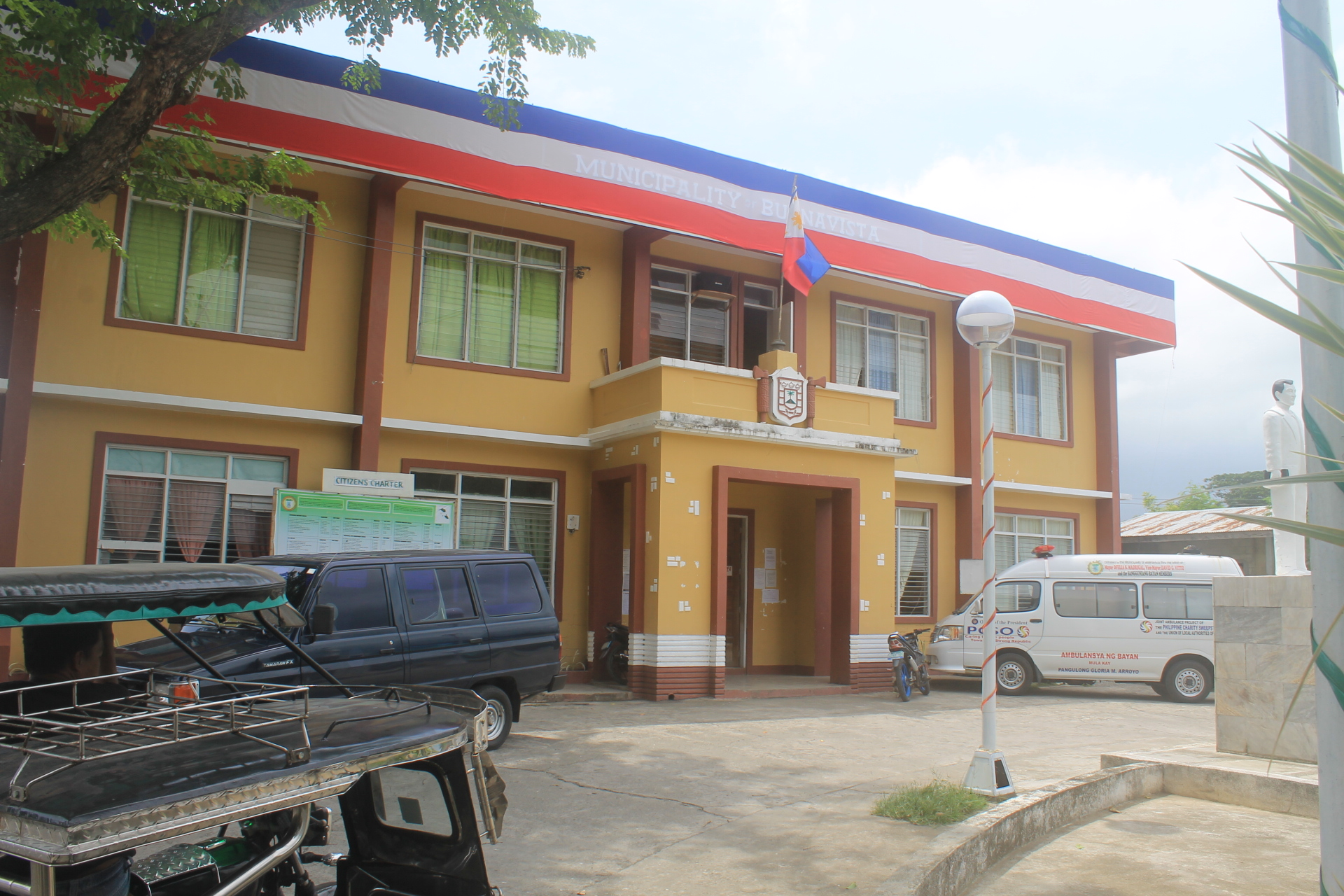 A municipal building of Buenavista,Marinduque